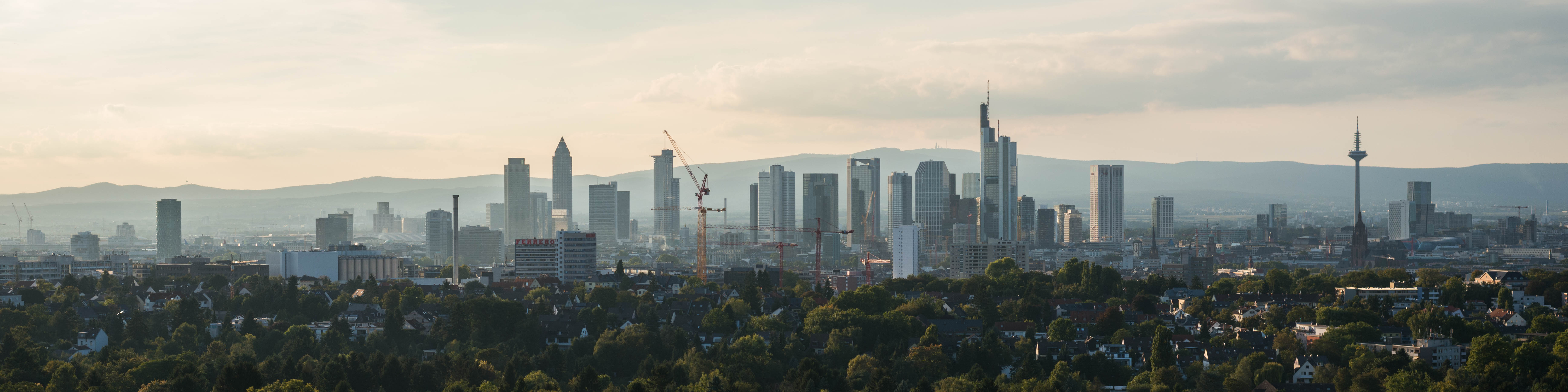 The skyline of Frankfurt am Main as seen from the Goetheturm